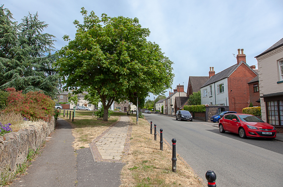 Main Street Markfield with village green.